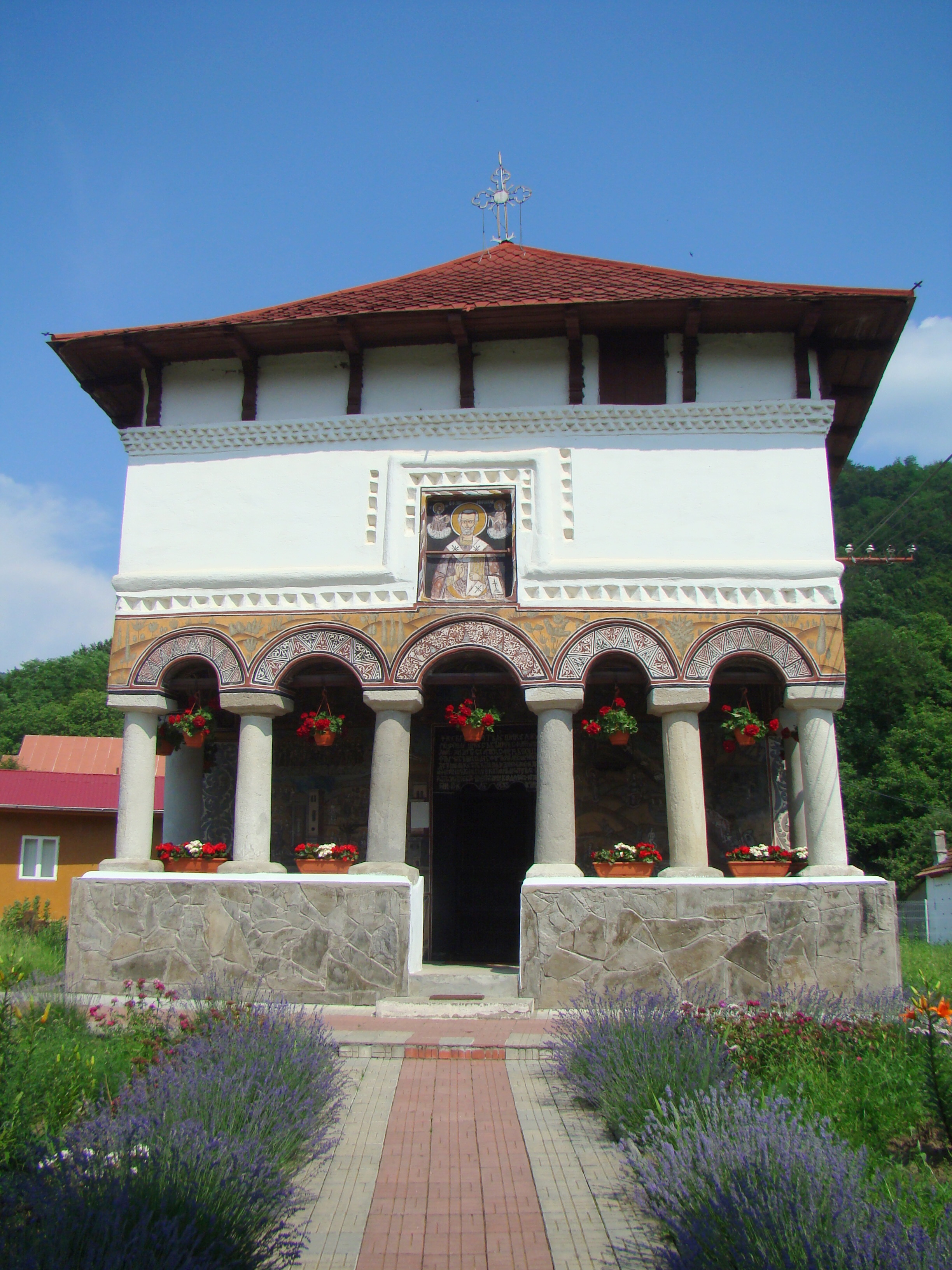 Saint Nicholas church in Olănești, Vâlcea county, Romania